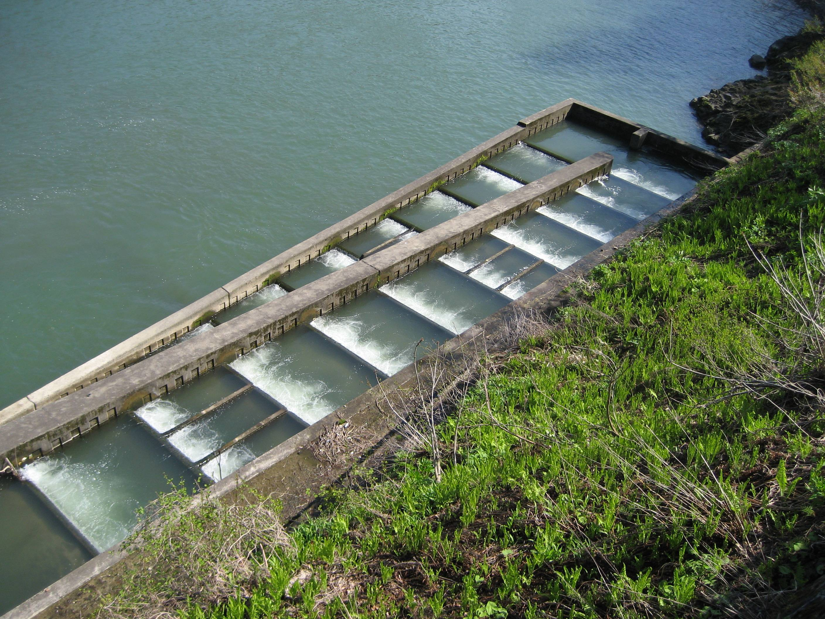 Nishiōtaki Dam (西大滝ダム) is TEPCO's dam for electric power generation.